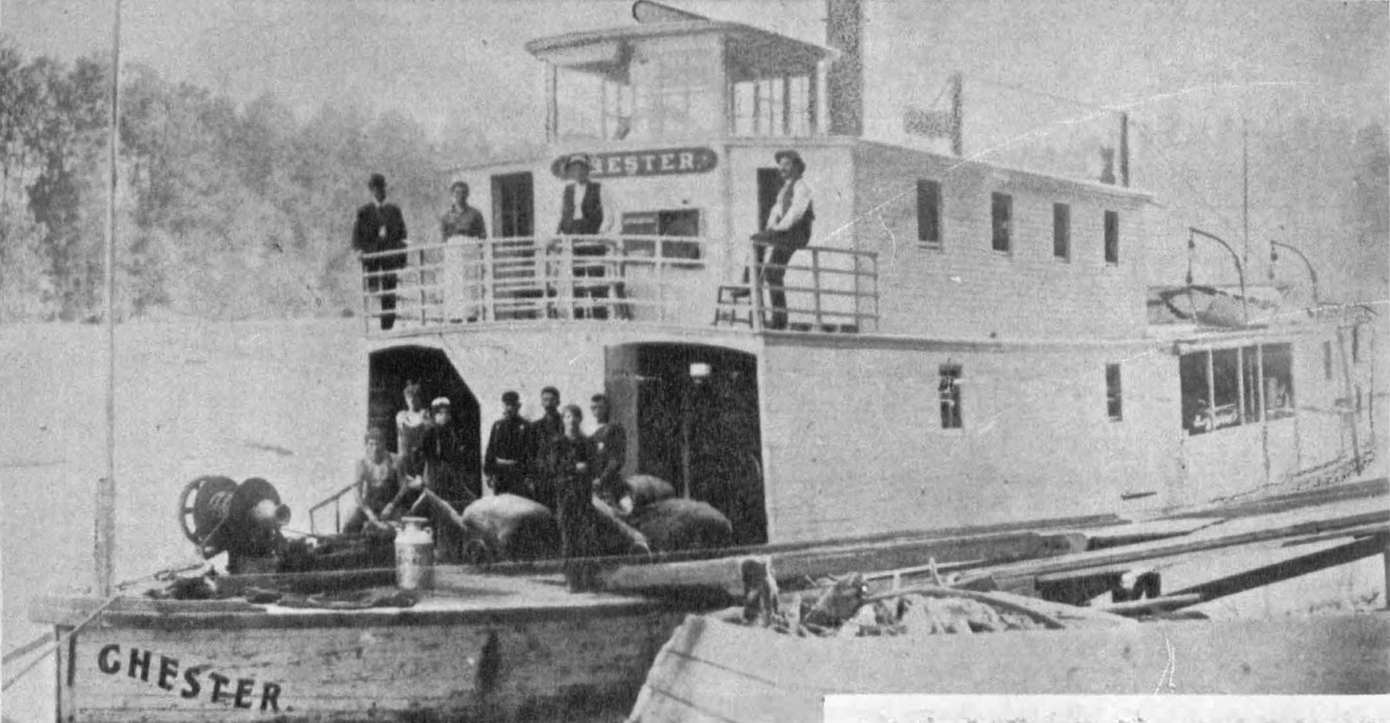 Steamer Chester, circa 1905, probably on the Lewis River. An additional cabin structure has been added after the boat was first built, as shown in this image.